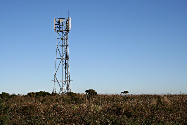 Mobile Phone Mast at Two Burrows. At over 150 metres this is the highest land in the area and a good place to put a mast.